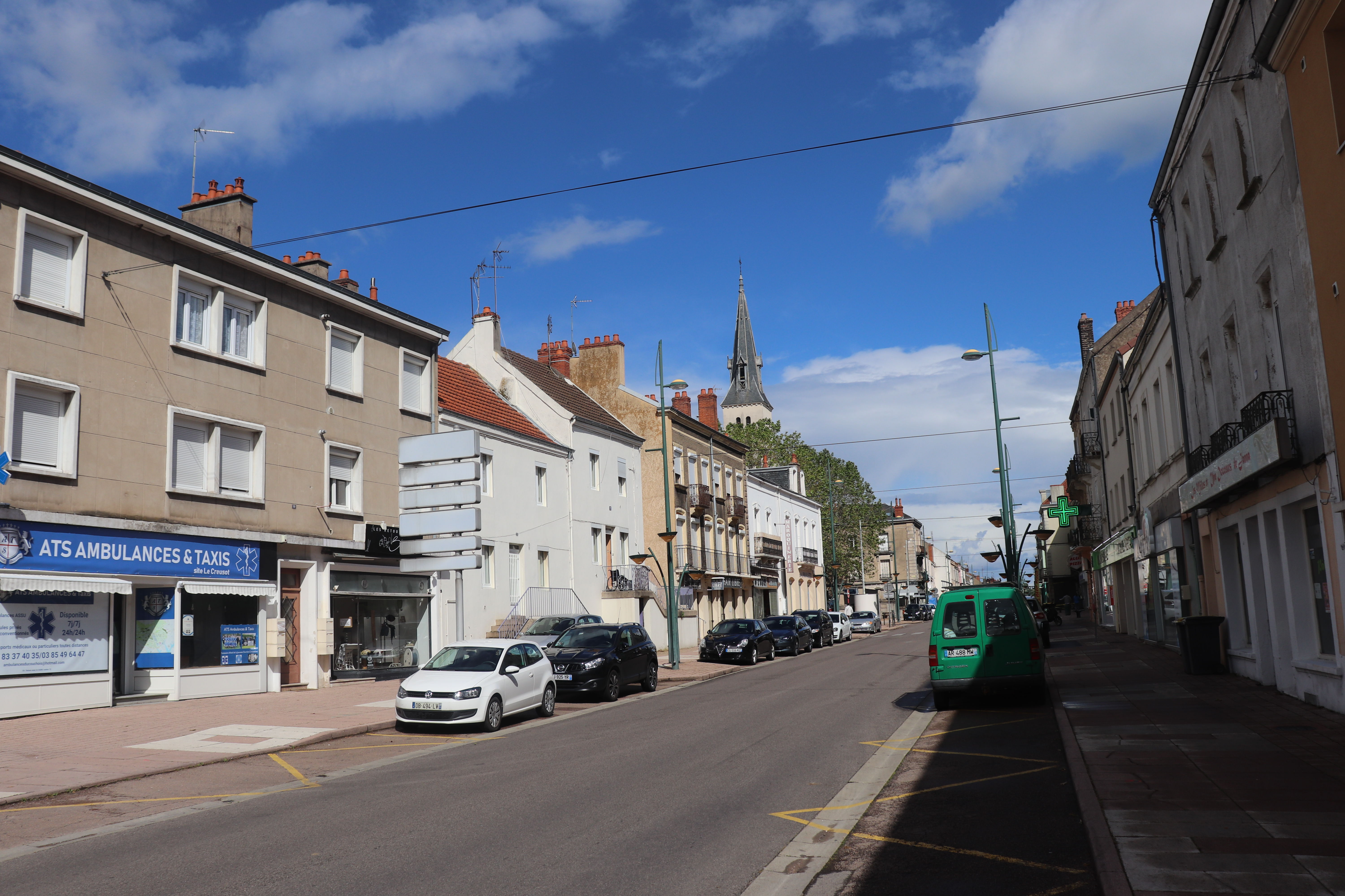 Le Creusot - Rue du Maréchal Foch